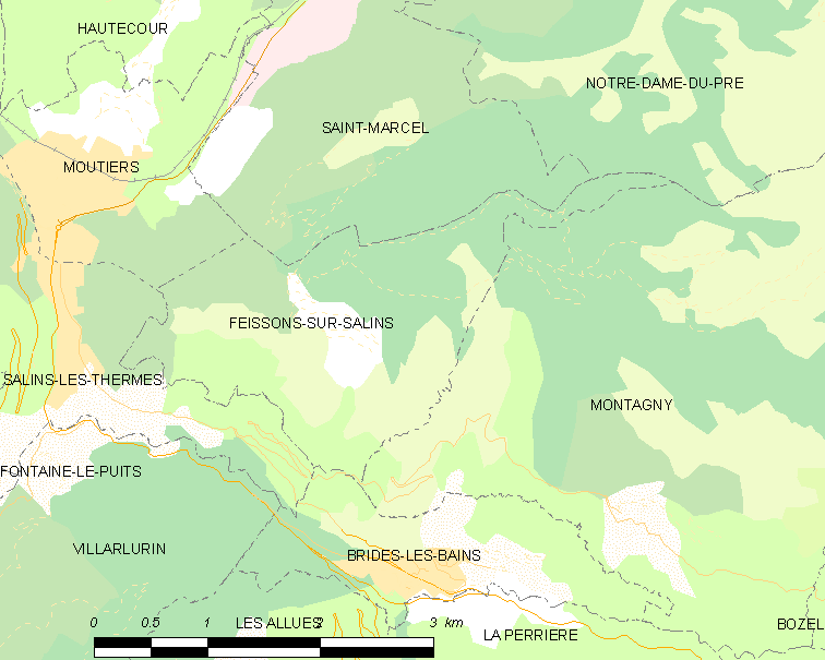 Map of French municipality